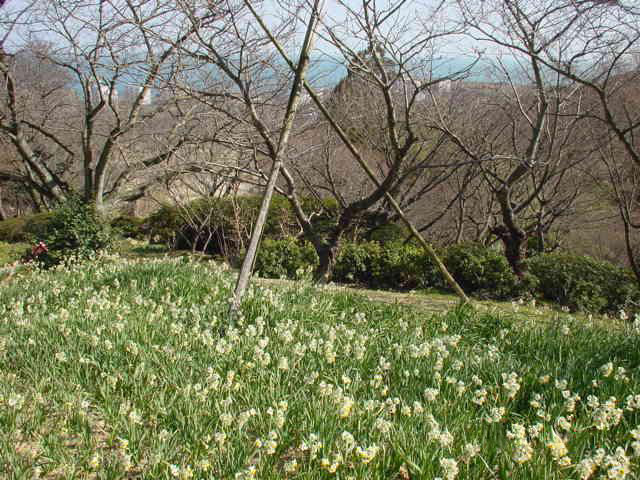 Shiranoe botanical gardens, Moji ward, Kitakyushu - facing the Suo nada on the Seto Inland Sea